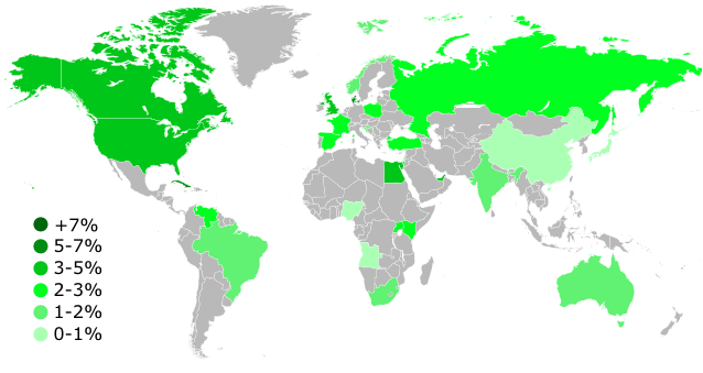 World Map Psoriasis